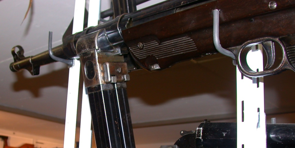 MP40 two mag housing